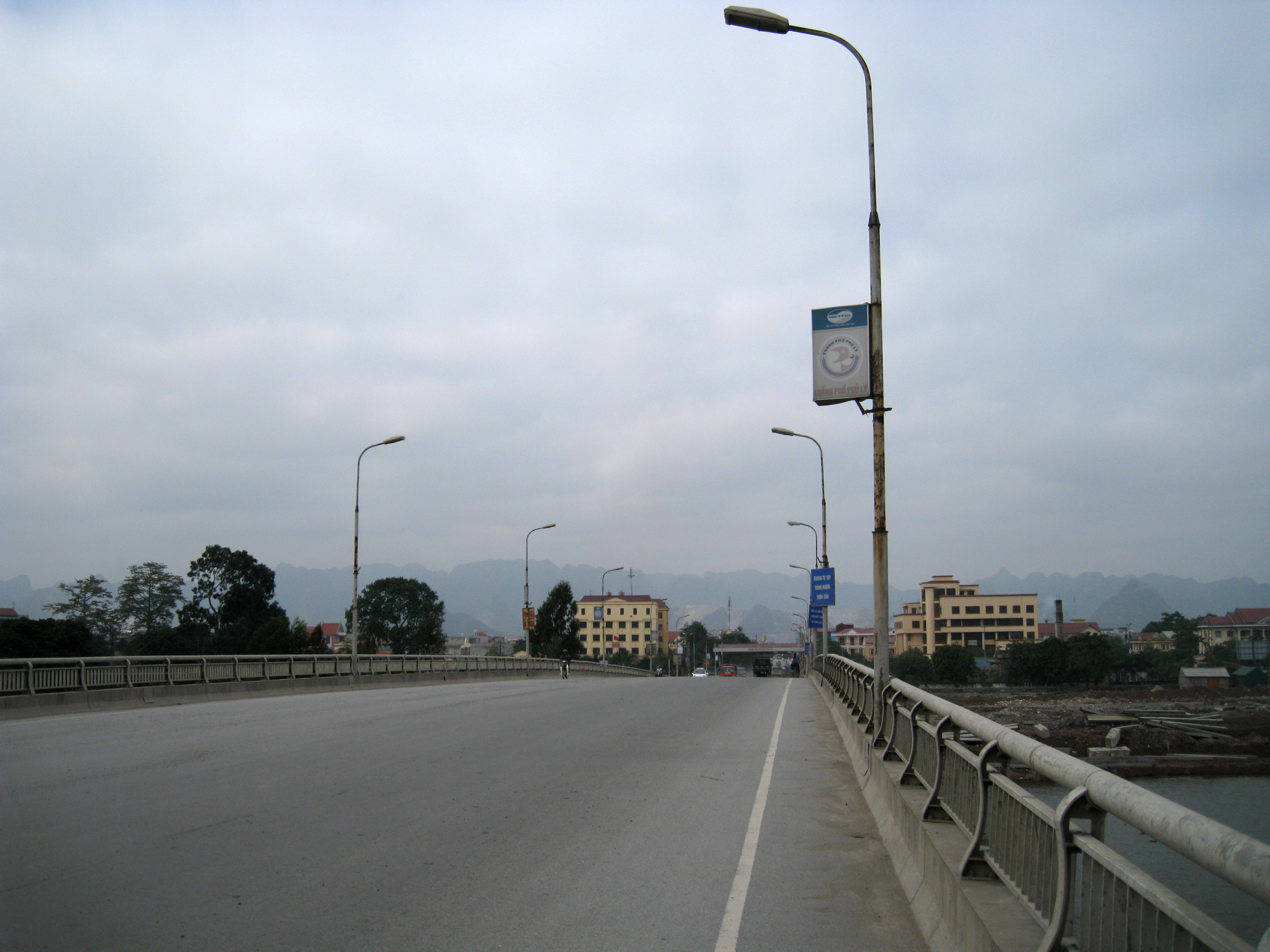 Phủ Lý Bridge over Đáy River, Phủ Lý City.